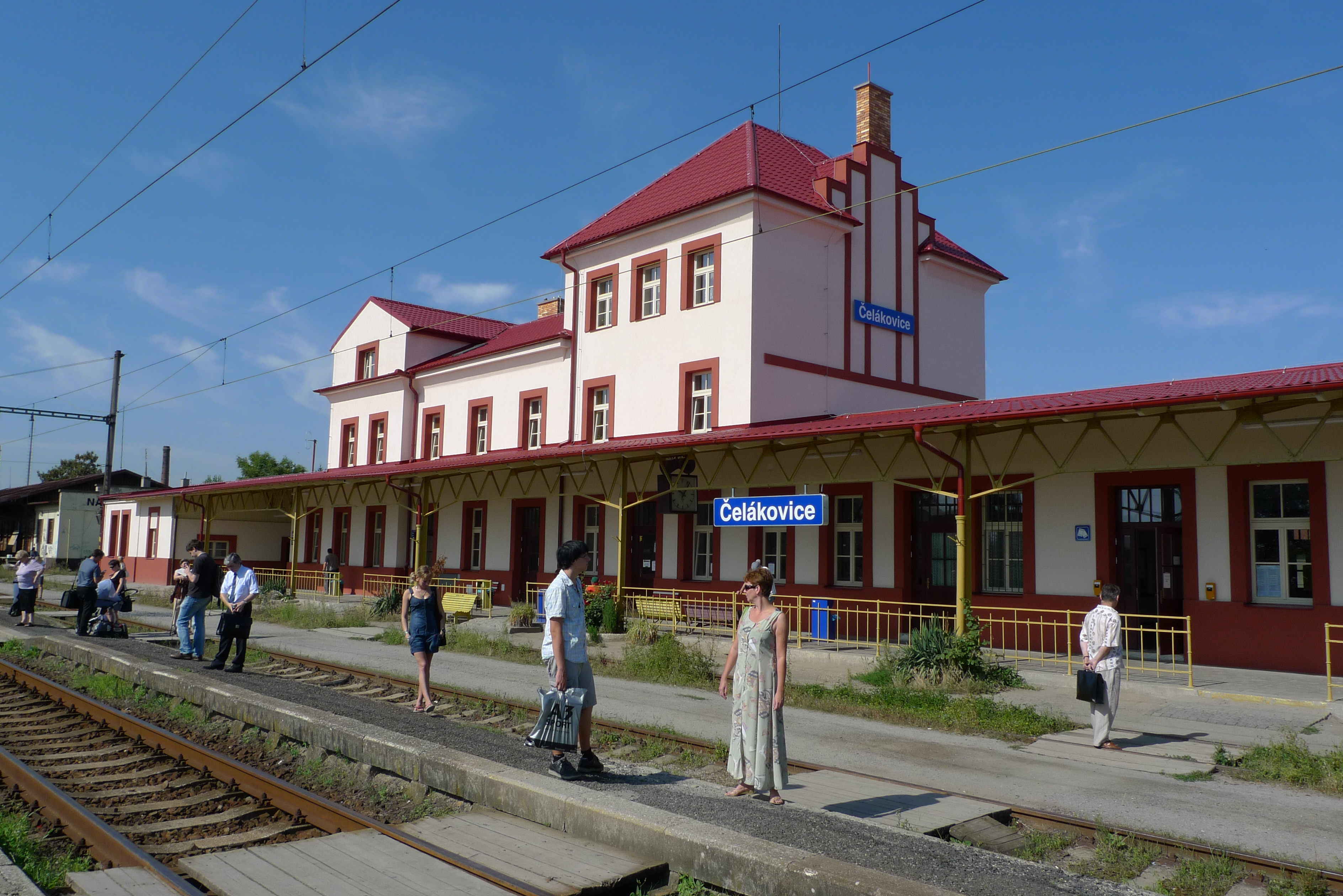 Railway Station Čelákovice, Czech Republic